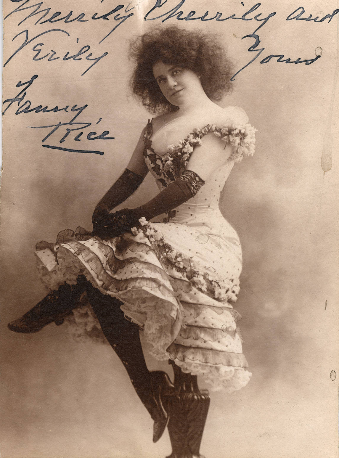 Fanny Rice, stage actress Subjects: actresses